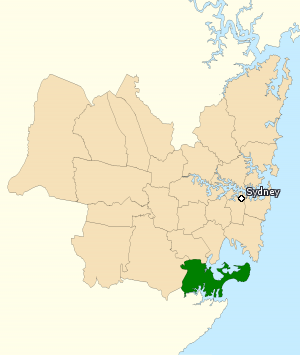 This image incorporates data that is: © Commonwealth of Australia (Australian Electoral Commission) 2009 Division of Cook 2010